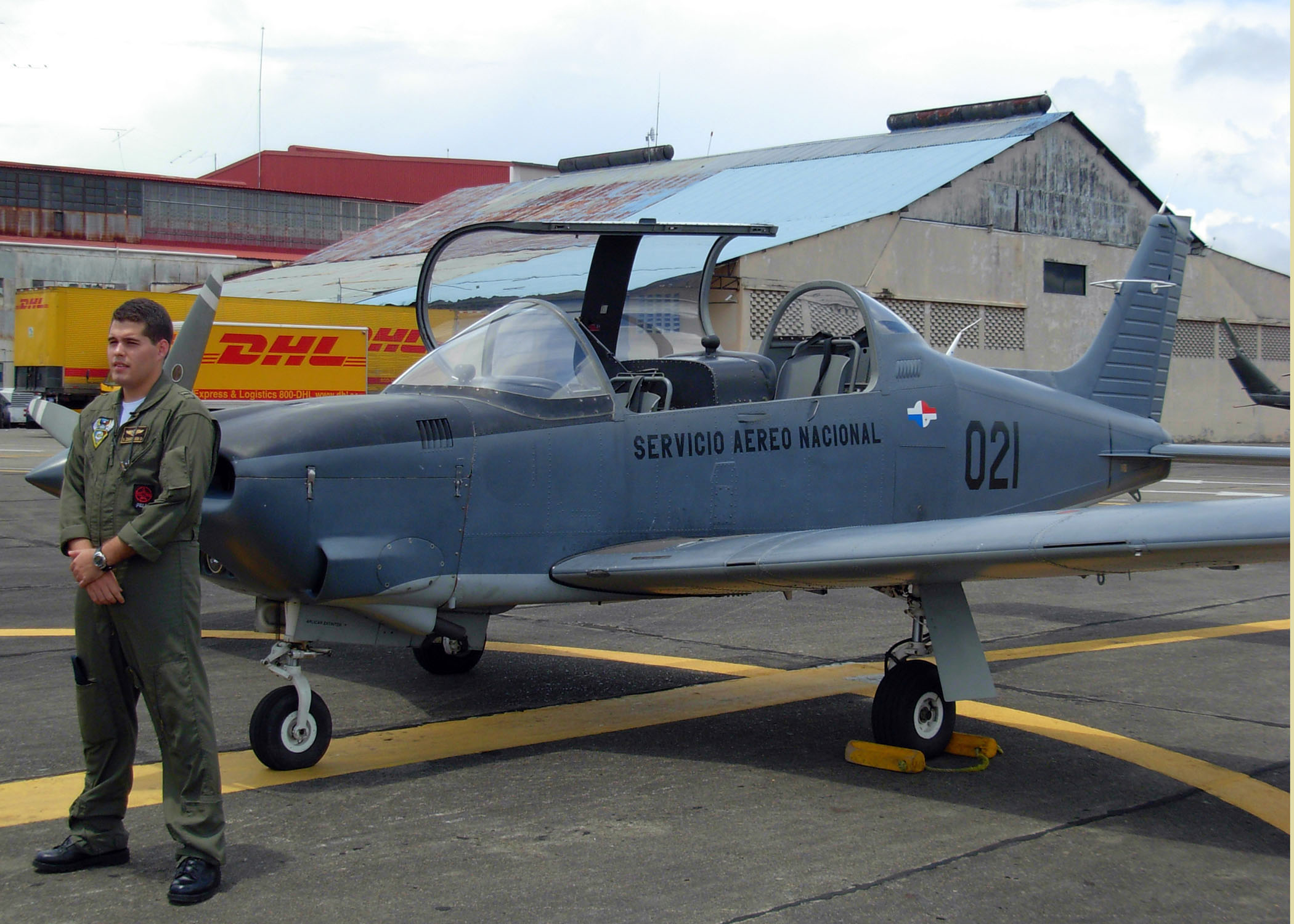 TOCUMEN, Panama (Sept. 1, 2007) - 2nd Lt. Hanz Zimmermann, a Panamanian T-35 pilot, stands near his aircraft after returning to Tocumen International Airport from maritime surveillance as part of the Combined Forces Air Combatant Command during PANAMAX 2007. Civil and military forces from 19 countries are participating in PANAMAX, a U.S. Southern Command joint and multi-national training exercise co-sponsored with the government of Panama, in the waters off the coasts of Panama and Honduras. U.S. Navy photo by Mass Communication Specialist 2nd Class Lolita Lewis (RELEASED)